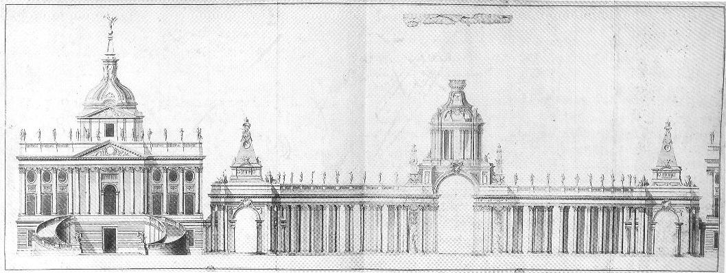 Elevation, Communs and colonnade at the New Palace, Potsdam, Germany